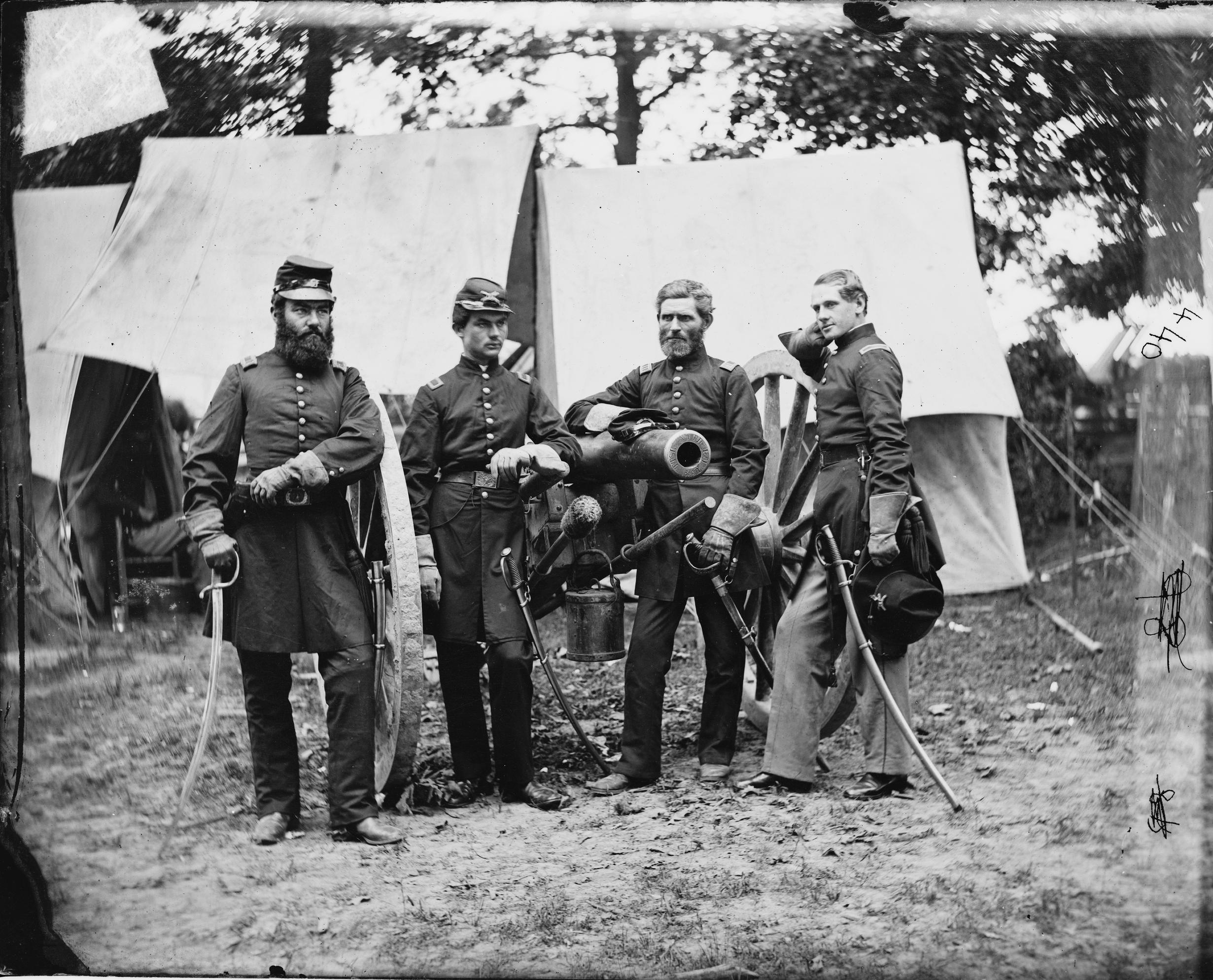 Fair Oaks, Va., vicinity. Capt. James M. Robertson (third from left) and officers.